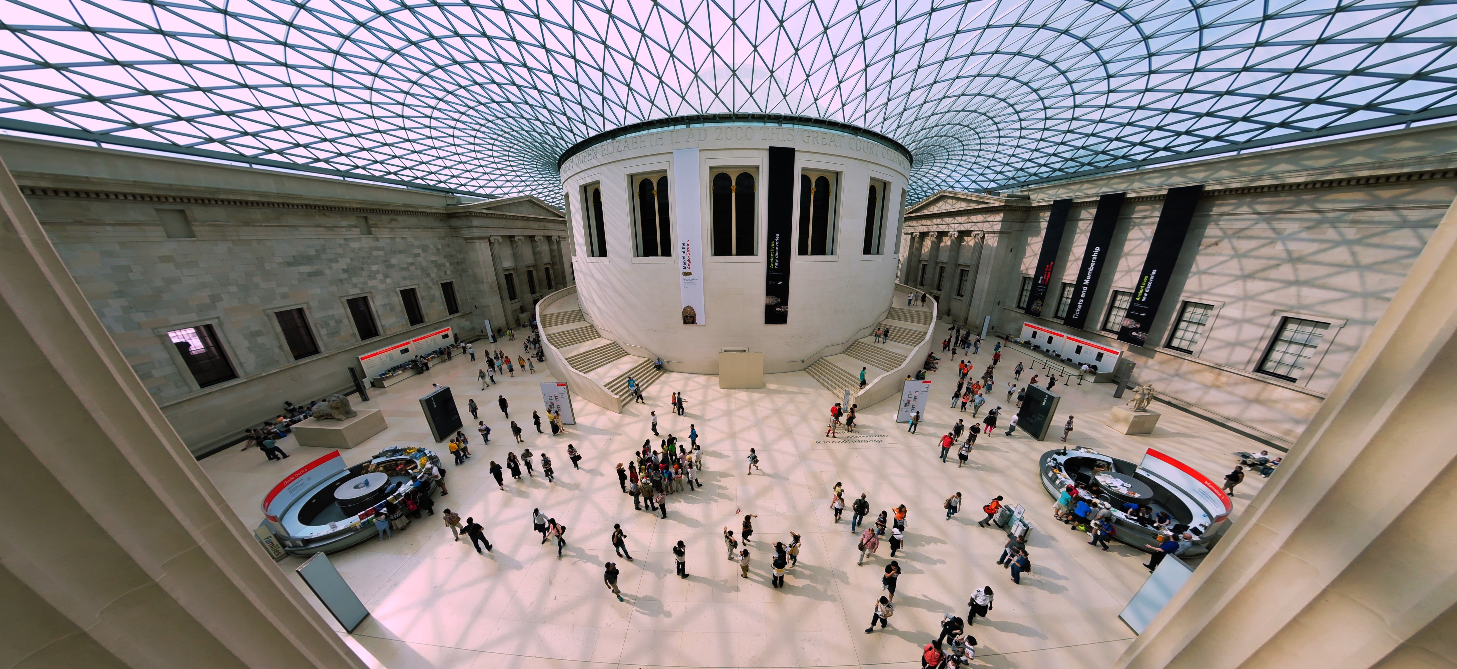 Photo of the Great Court of the British Museum